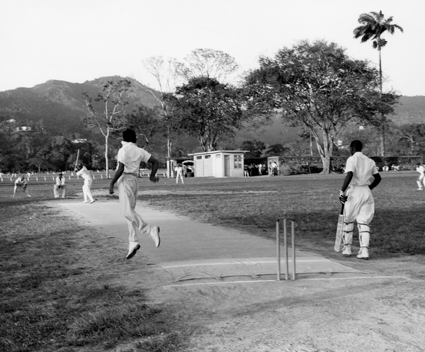 Local call number: JJS1433 Title: Game of cricket in Trinidad Date: 1960 Physical descrip: 1 photoprint - b&w - 8 x 10 in. Series Title: Repository: 500 S. Bronough St., Tallahassee, FL 32399-0250 USA. Contact: 850.245.6700. Persistent URL